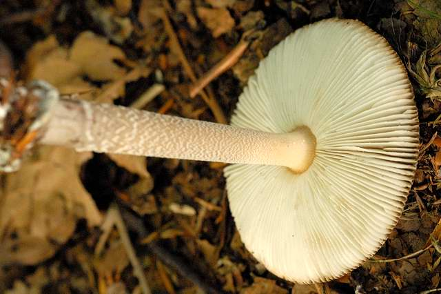 Amanita spec. from Commanster, Belgium. The determination of the species shown in this picture has been verified.